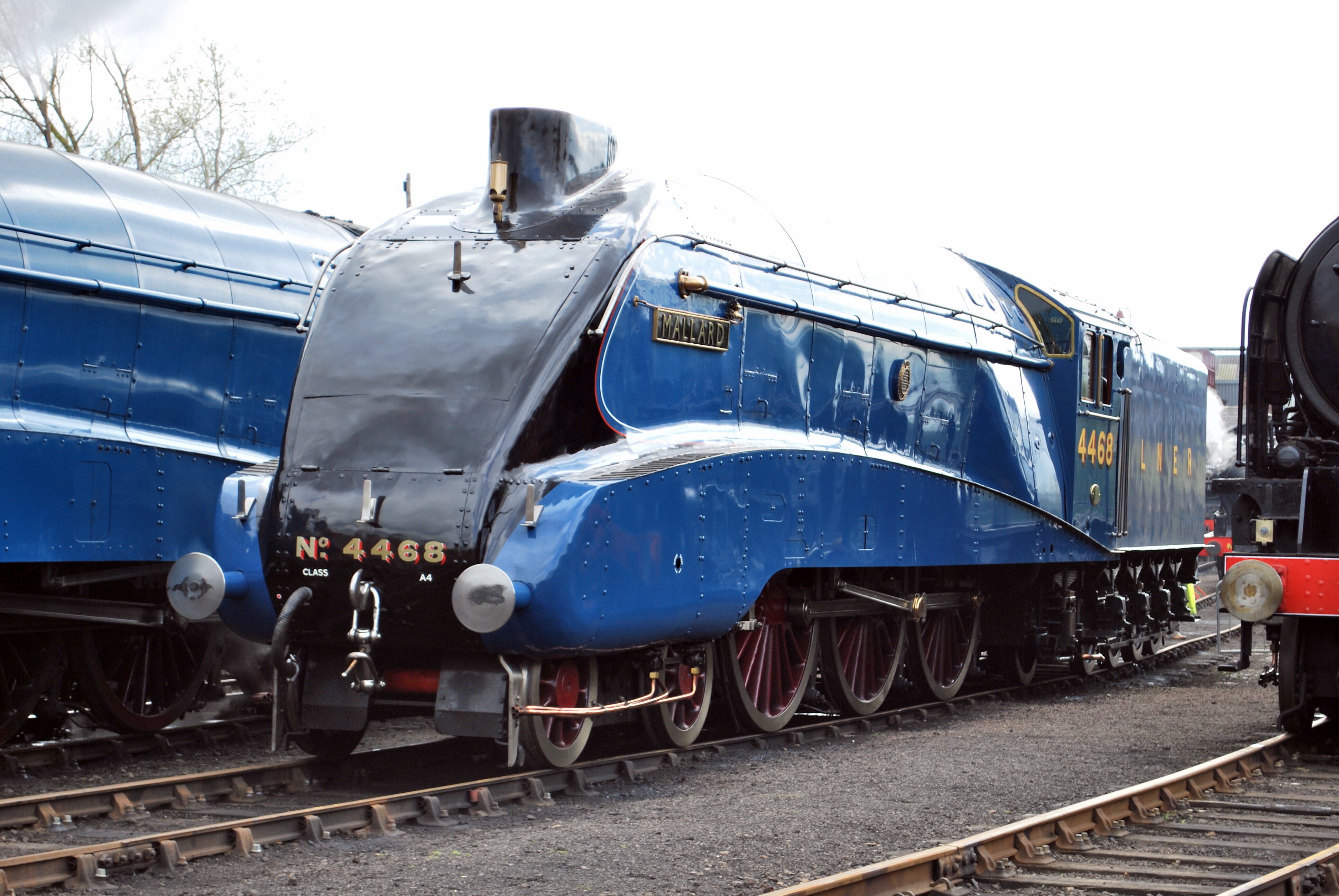 LNER Gresley "A4" 4-6-2 No.4468 "Mallard" (later LNER No.22; BR 60022) in 1937 Garter Blue and Indian Red livery on a rare foray from the National Railway Museum at Barrow Hill station, 04/12. "Mallard" was fiited with a Kylchap double chimney from new (most had them fitted in the 1950's) and in 1936 achieved the World Speed Record for steam at 126 mph in 1938.